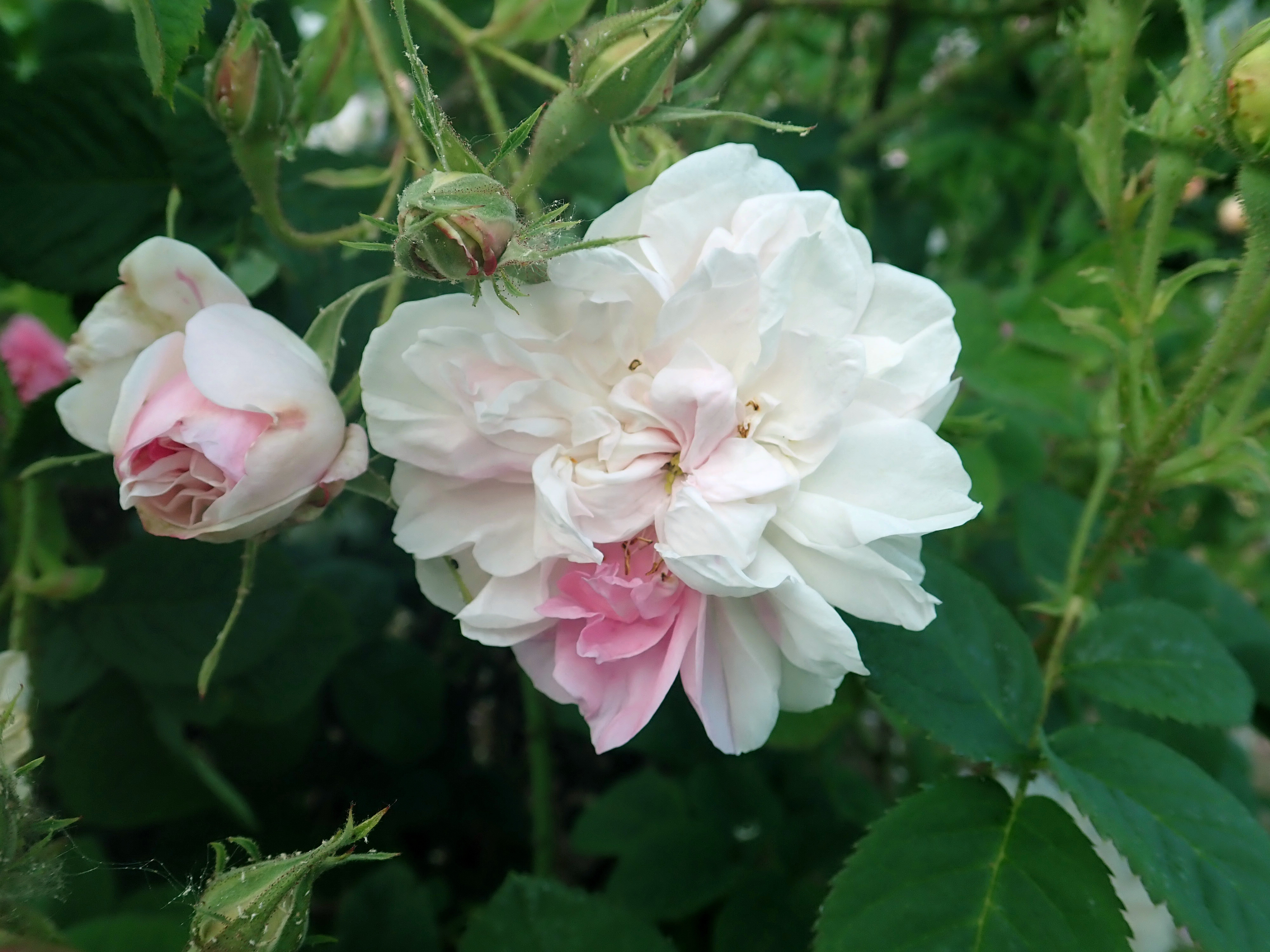 Rosa × damascena Mill. var. damascena f. versicolor (West) Br. et. Gl. ‘York and Lancaster’, Europa-Rosarium Sangerhausen.